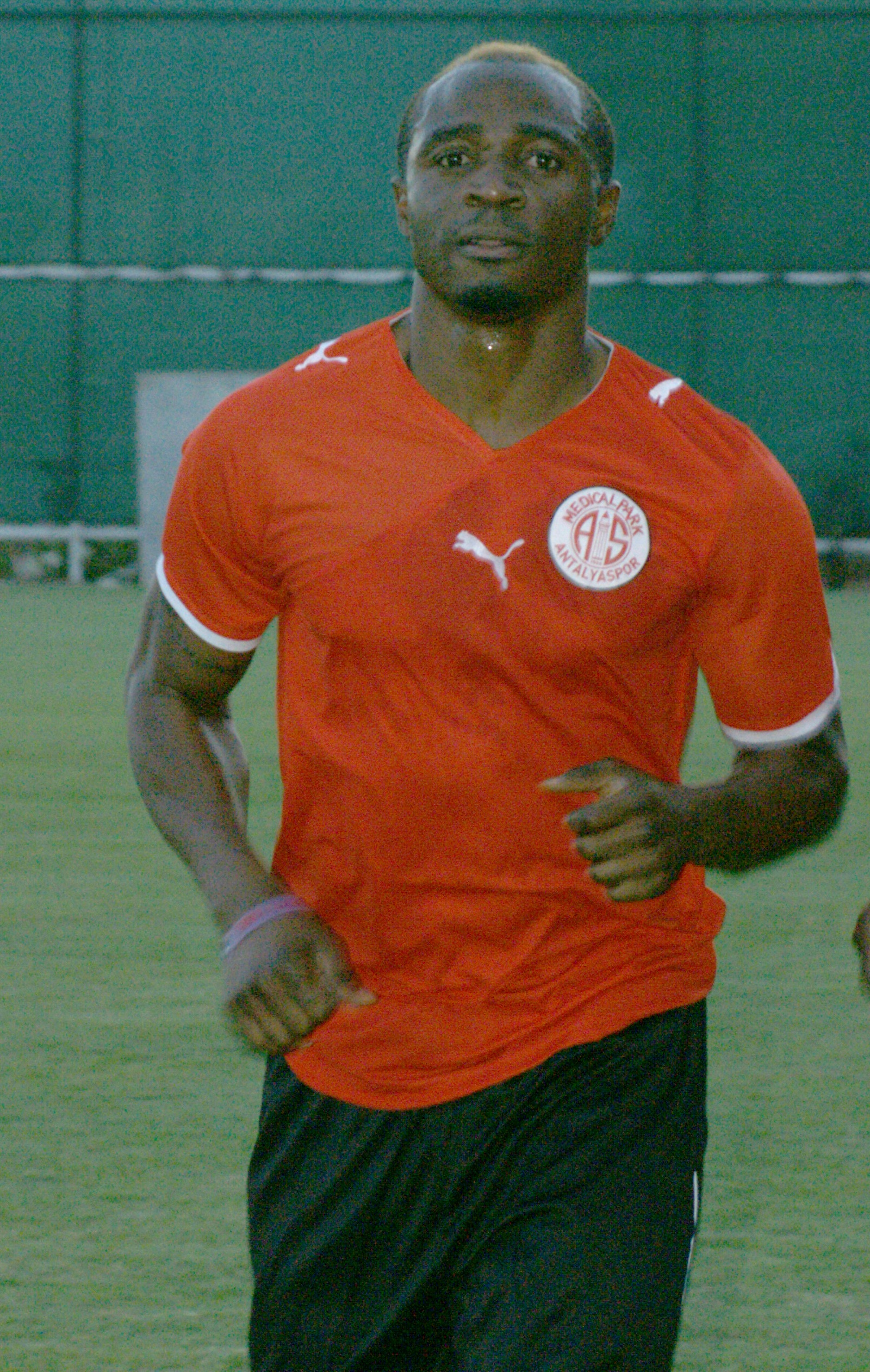 Photo : Murat ÖZGEN